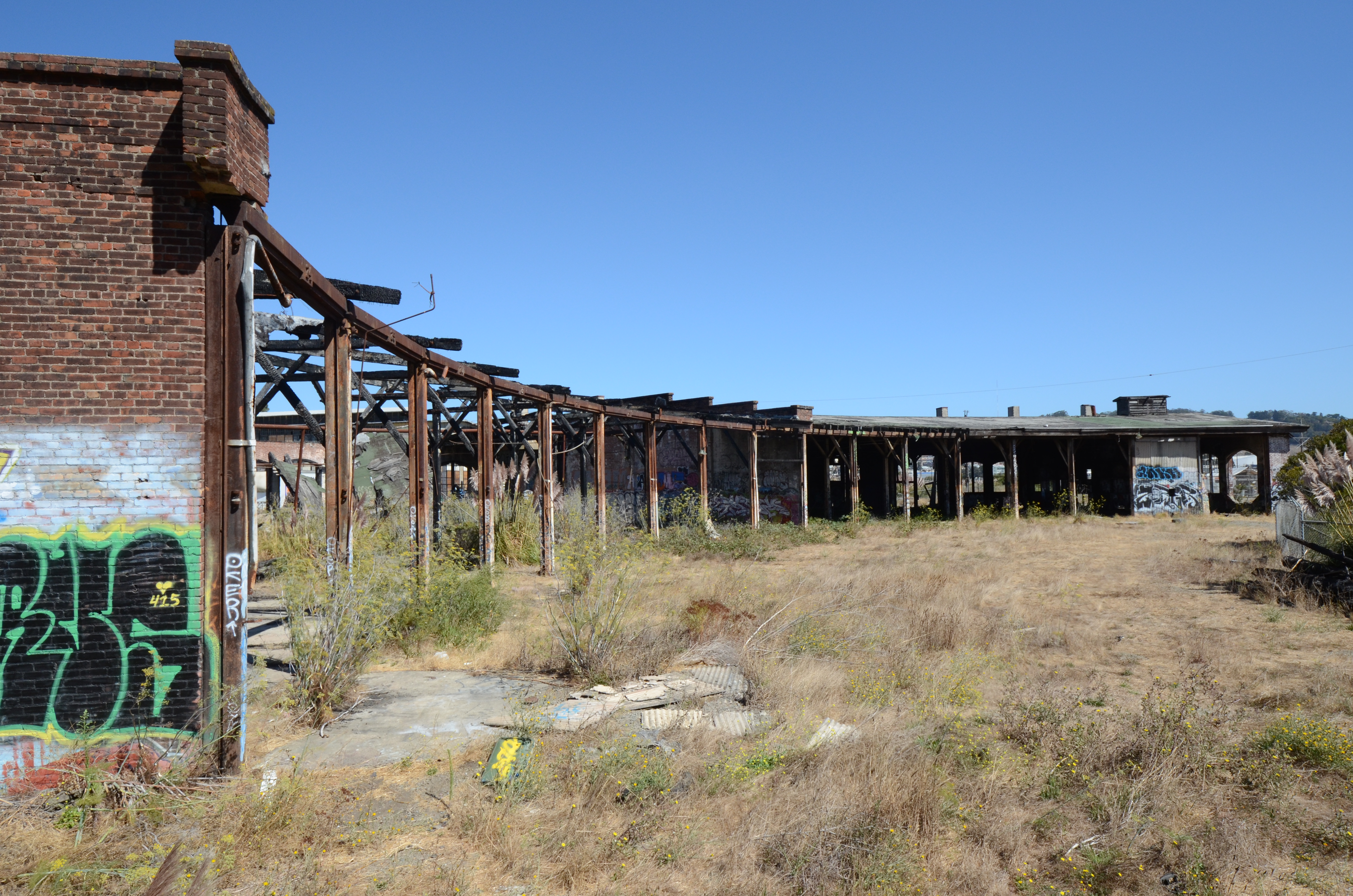 Southern Pacific Railroad Bayshore Roundhouse